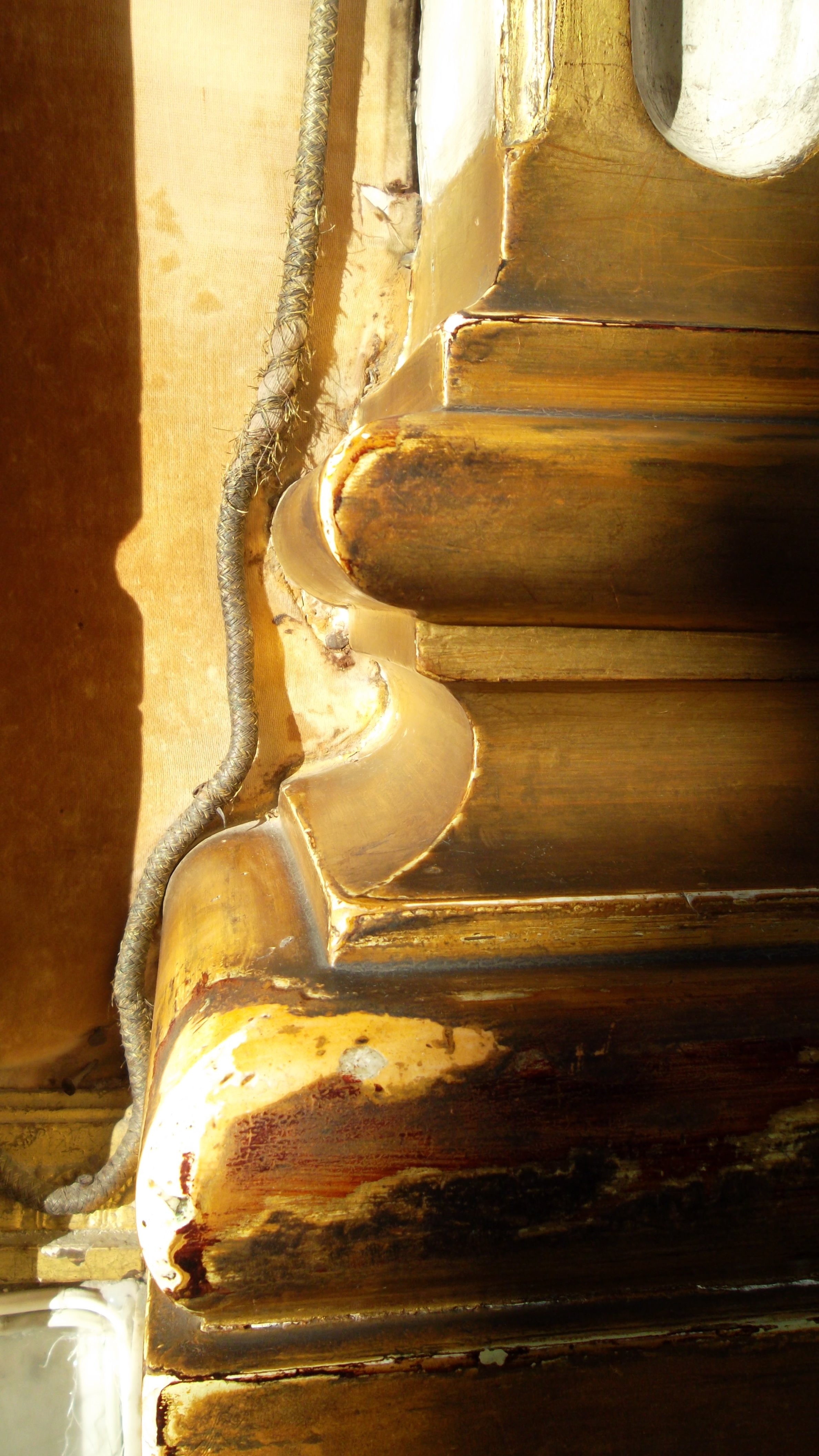 Poliment Gilding in Peter the Great (Small Throne) Room in to the Winter Palace, St. Petersburg